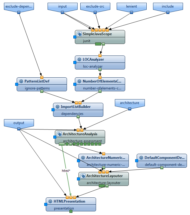 An analysis block built using ConQAT's graphical configuration language.